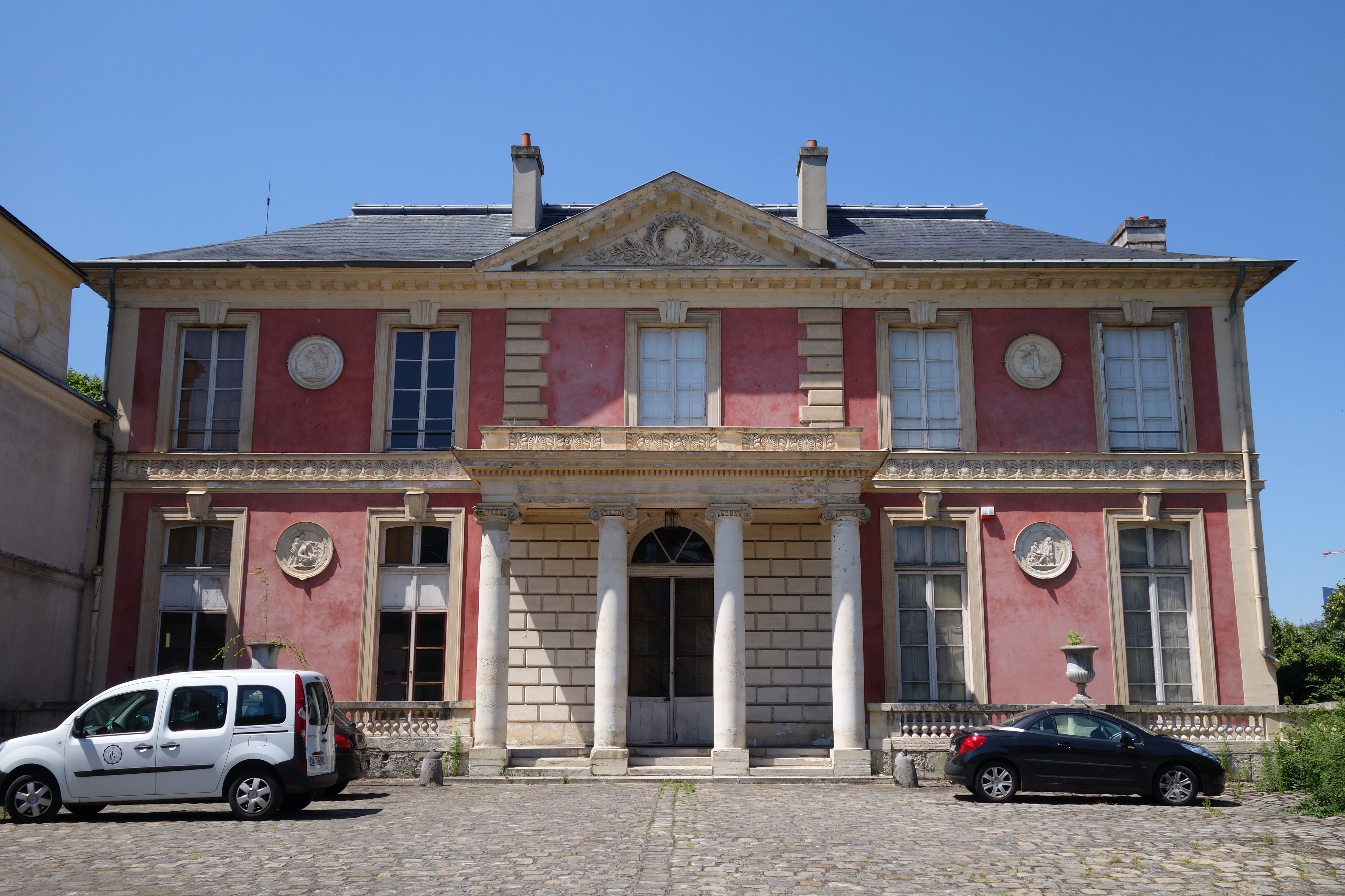 The Folie Saint-James in Neuilly-sur-Seine, France.